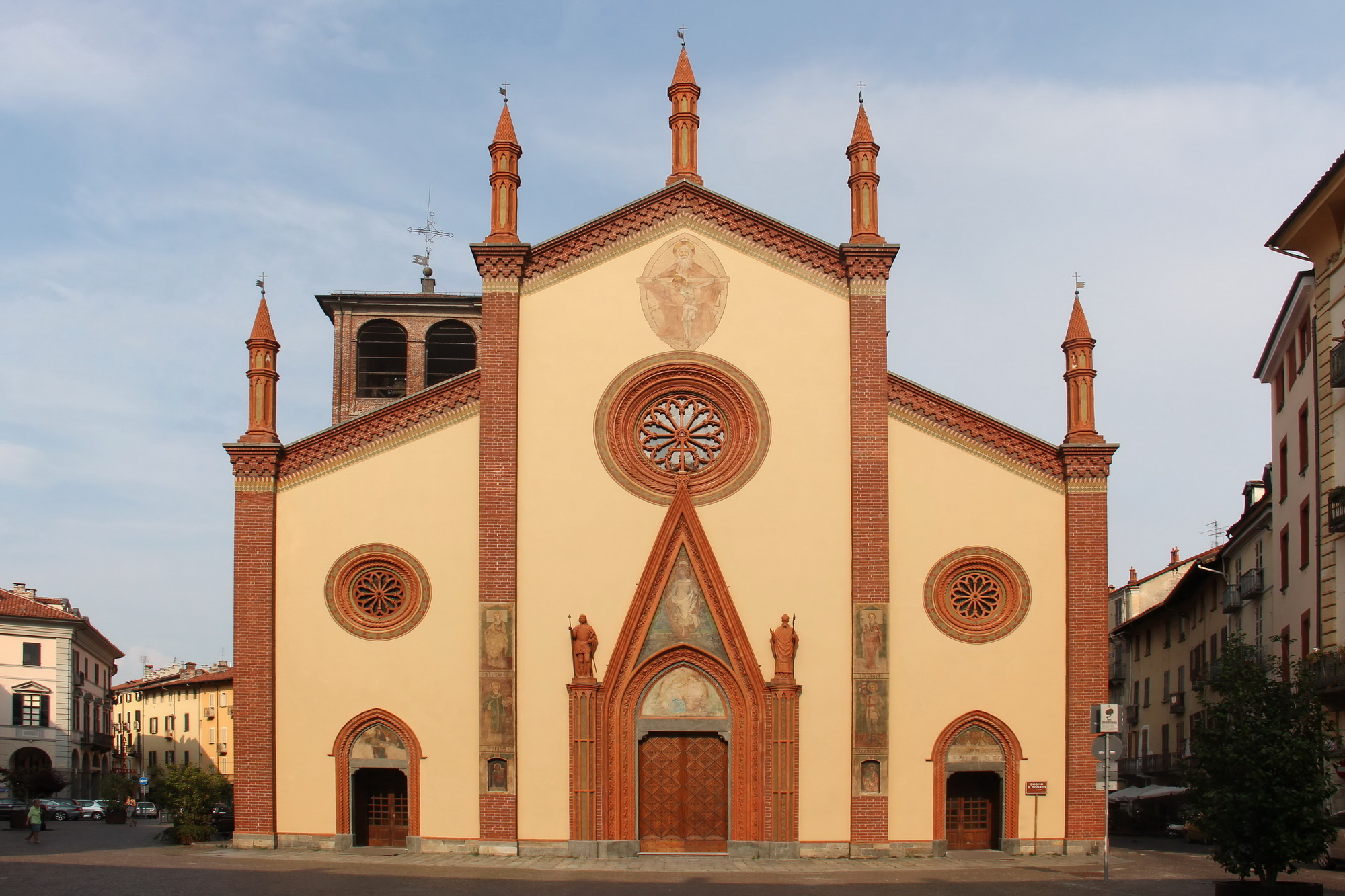 Cathedral San Donato Native nameDuomo di PineroloLocationPinerolo, ItalyCoordinates44° 53′ 08.52″ N, 7° 19′ 47.28″ E Web page Authority control : Q743305 institution QS:P195,Q743305